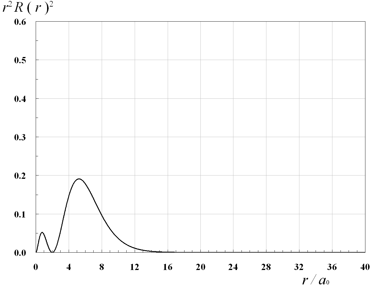 Radial distribution in 2s orbital